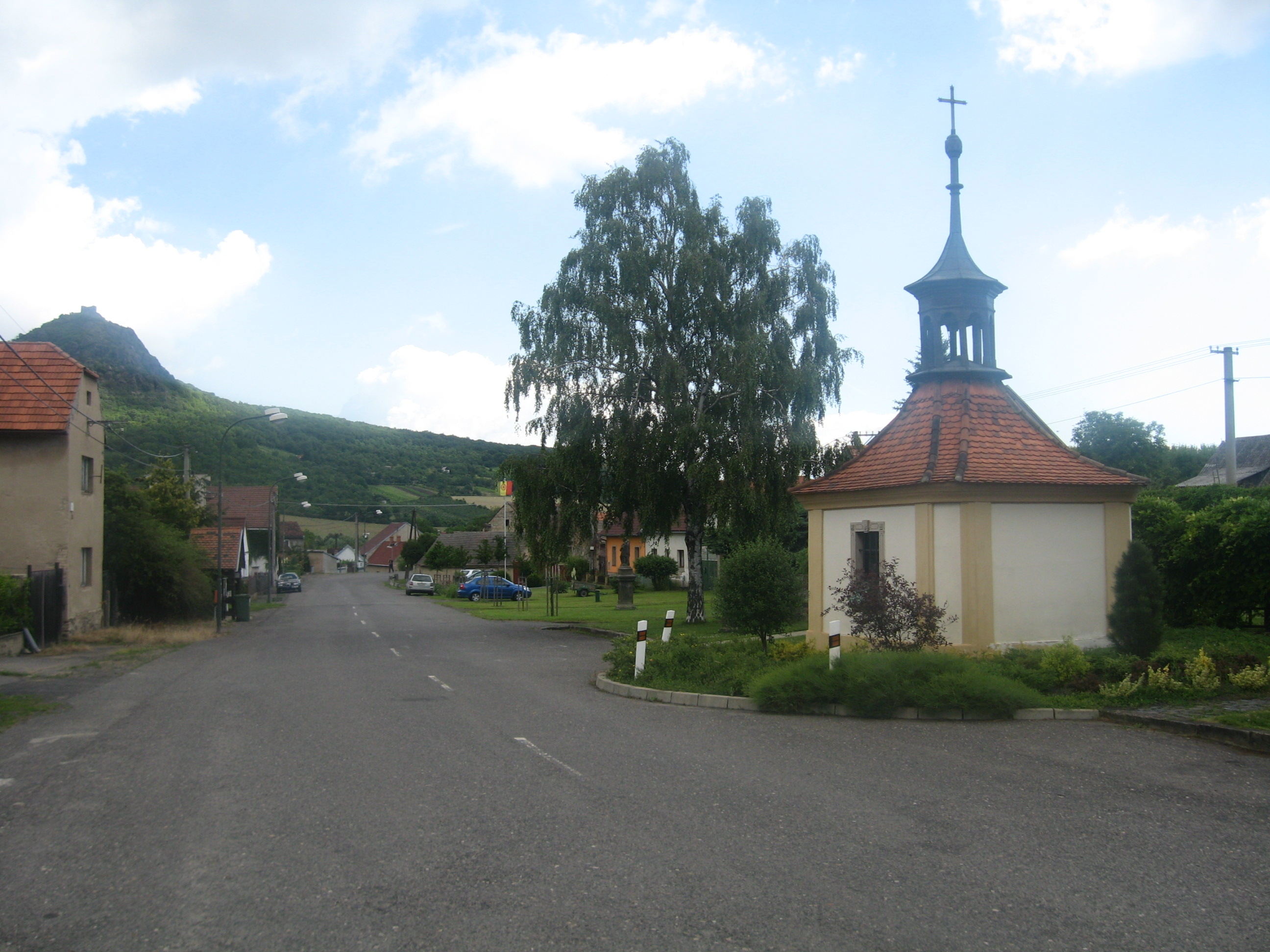 Village square in Kololeč, in the backround Košťálov castle